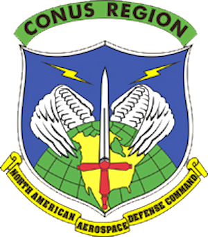 Emblem of the Continental NORAD Region